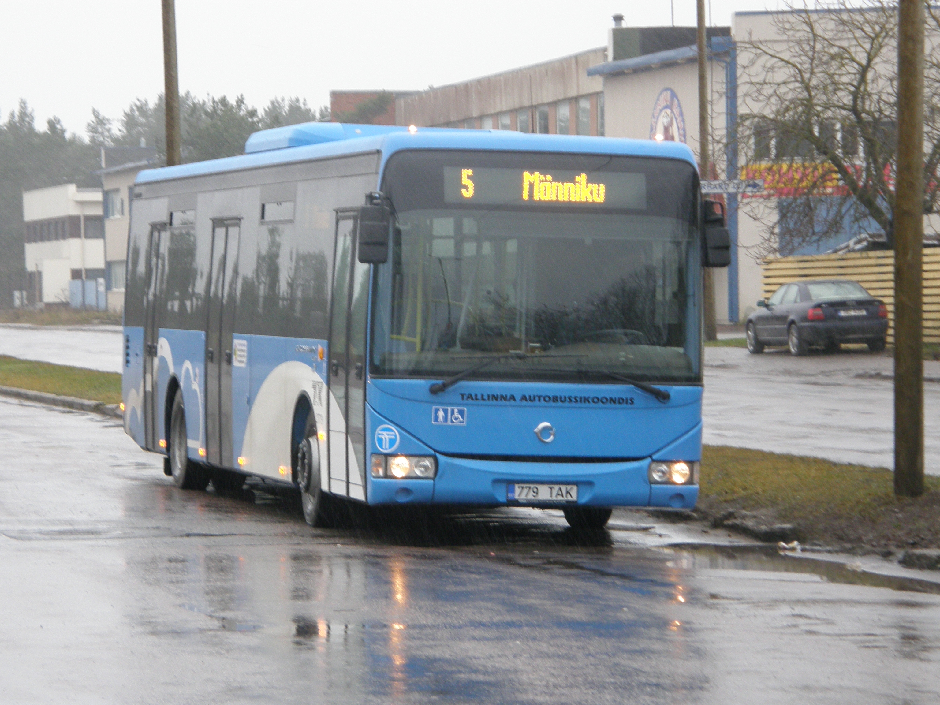 Iveco Irisbus Crossway in Tallinn on it's first day of service